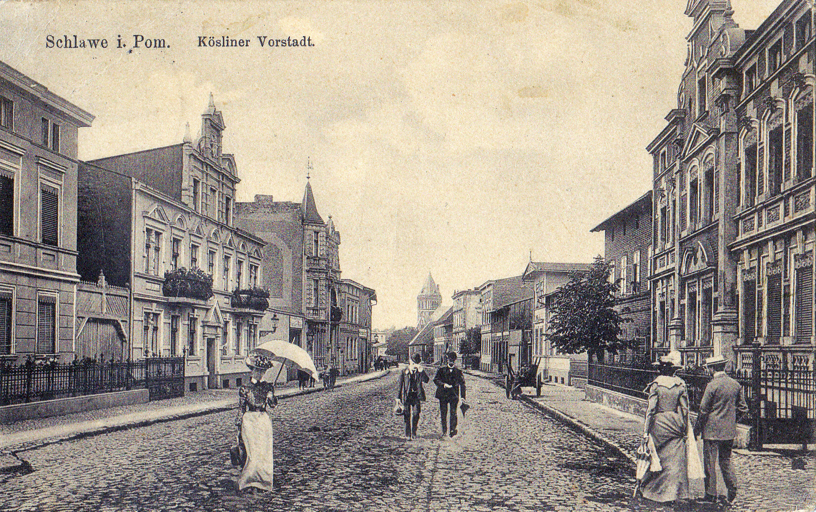 Sławno (German: Schlawe). Koszalińska Street. Postcard from 1912. Publisher: Mosella. GMBH, Trier.